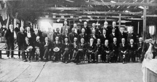 Photograph of a dinner honoring veterans of the Confederate States of America army, held at Chatham, Pittsylvania, County, Virginia, in 1910. The dinner, hosted by the Rawley Martin Chapter of the United Daughters of the Confederacy, honored Col. Rawley Martin, a hero of Pickett's charge at Gettysburg. Pittsylvania County men, serving in the brigade of Armistead, took the full force of the Union Army attack.